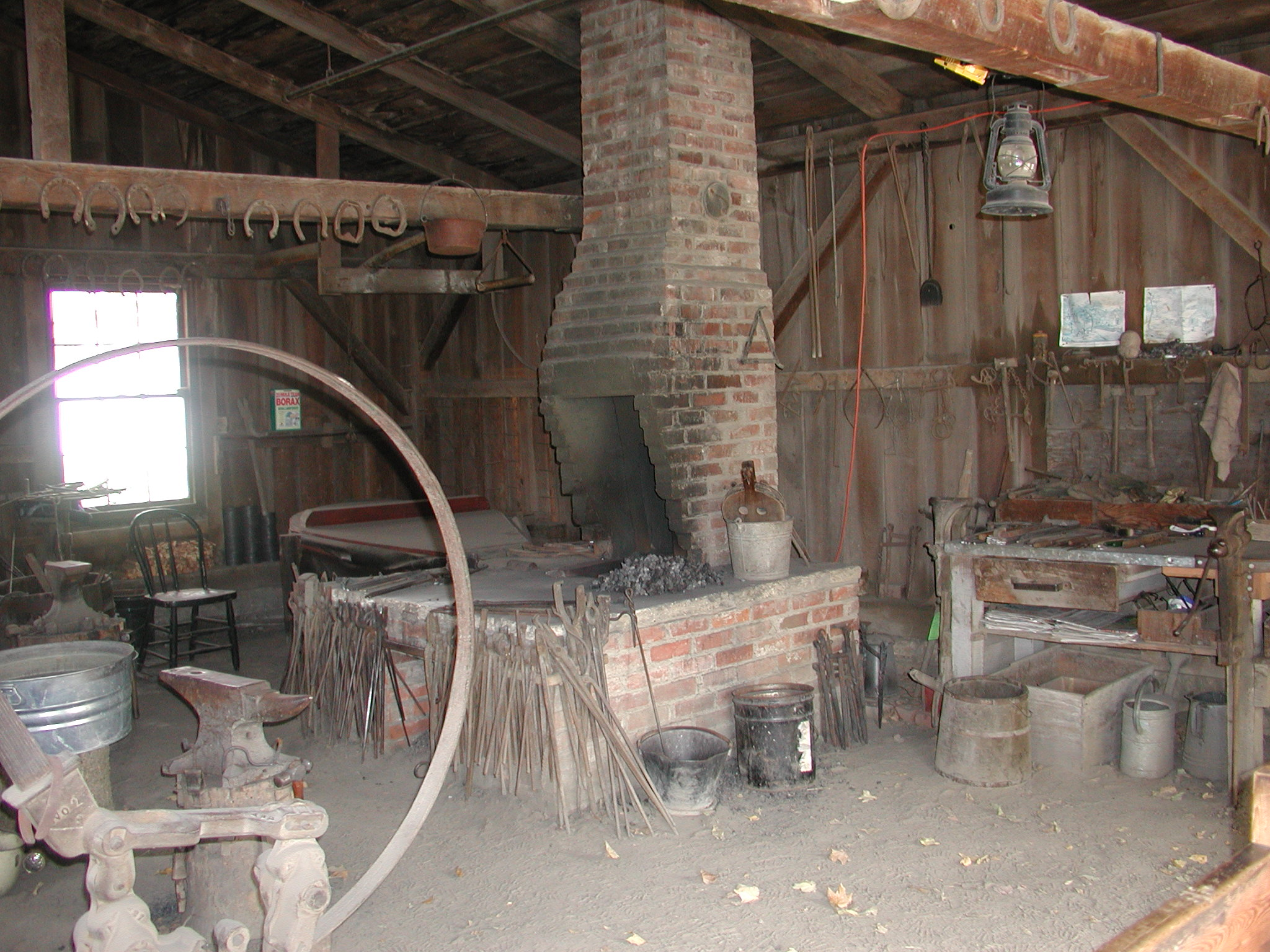 Blacksmith Shop of Hoover Family built origianl for sex slave traficing